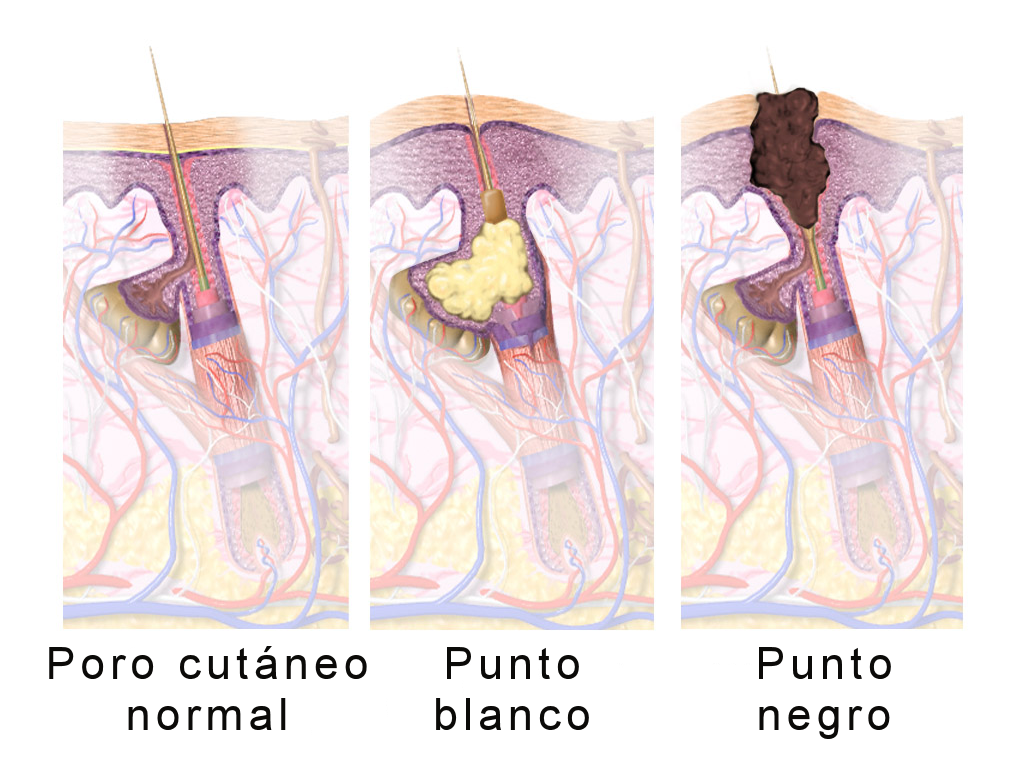 Acne. A comedo is a clogged hair follicle (pore) in the skin. Keratin (skin debris) combines with oil to block the follicle. A comedo can be open (blackhead) or closed by skin (whitehead), and occur with or without acne.